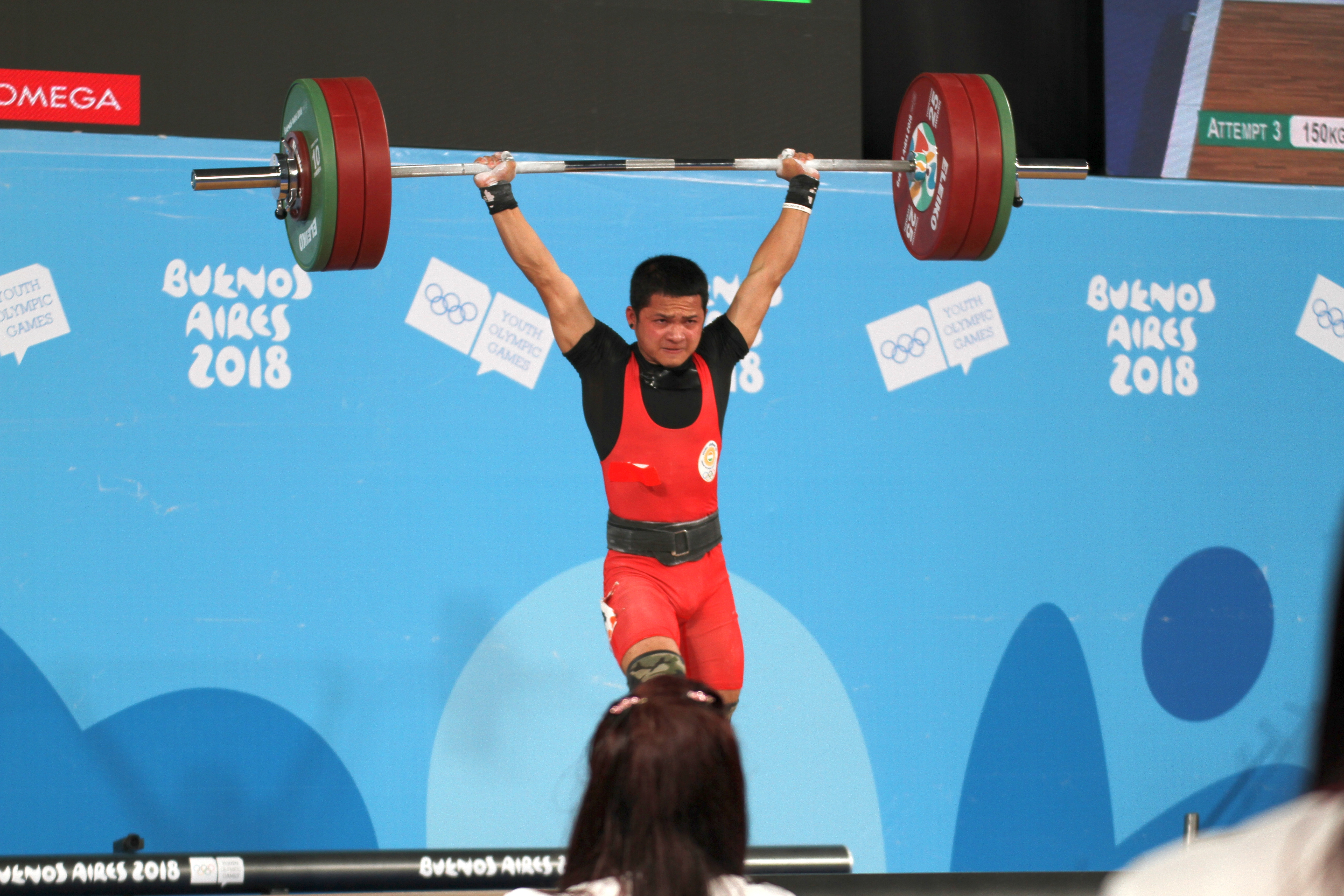 Weightlifting at the 2018 Summer Youth Olympics at 8 October 2018 – Boys' 62 kg